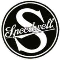 Speedwell trucks - logo 1912